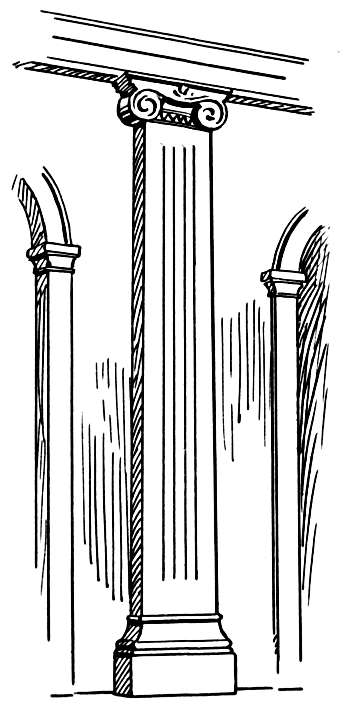 Line art drawing of pilaster.